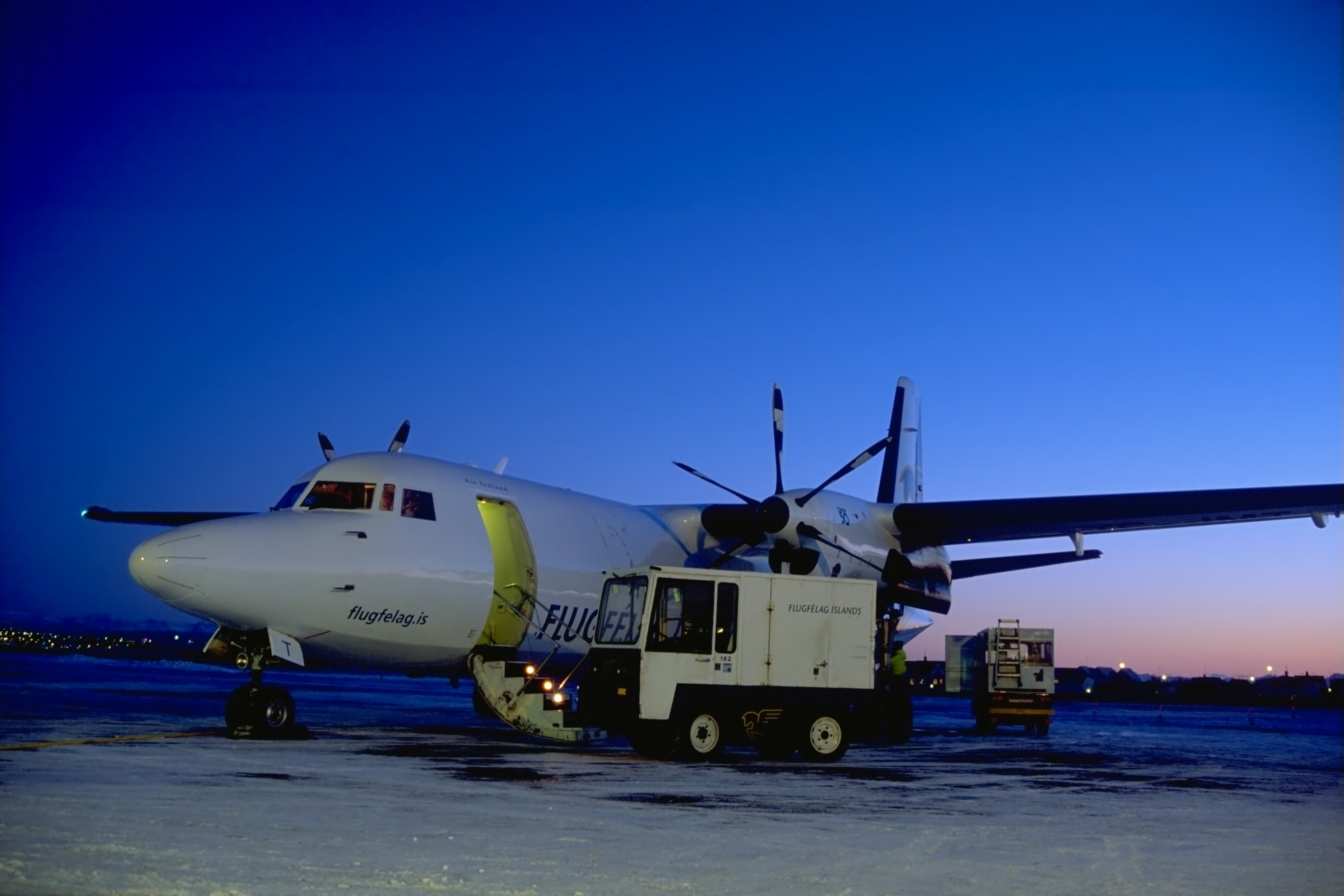 A Air Iceland Fokker 50 Aeroplane in Reykjavík Airport. Photo was taken using the following technique: Film: Fuji Velvia Lens: 4/35-70 Filter: none Body: Minolta Dynax 7 Support: Manfrotto 190B Image with Information in English Bild mit Informationen auf Deutsch